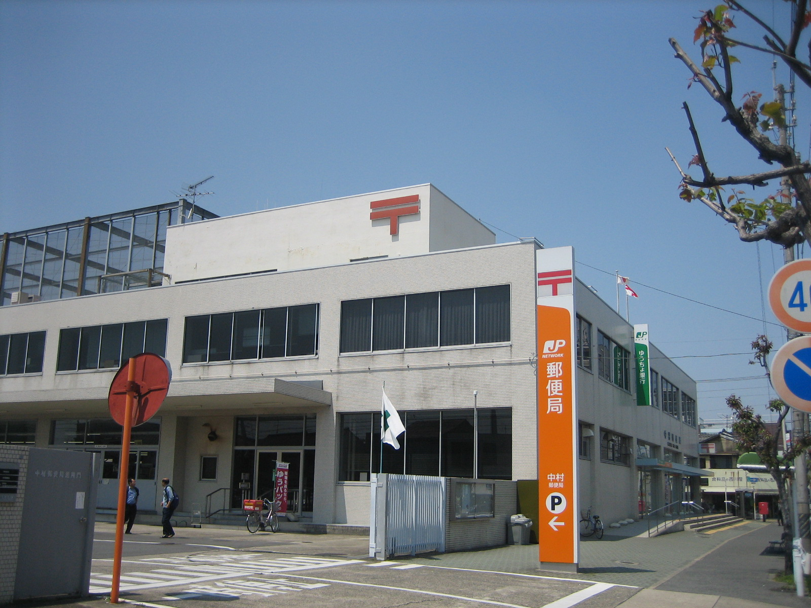 Nakamura post office in Aichi, Japan